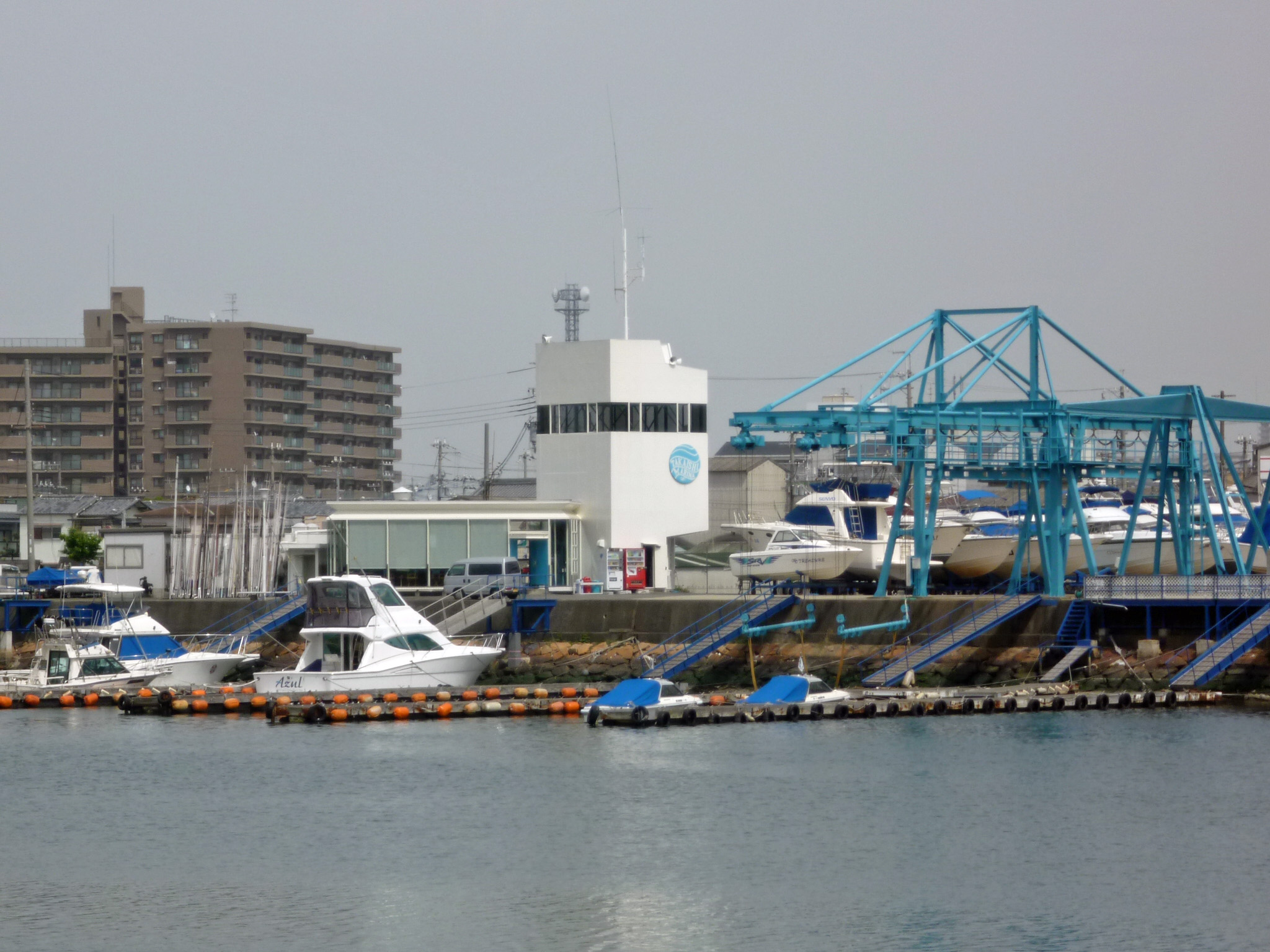 Takaishi marina,view from the otherside of canal.